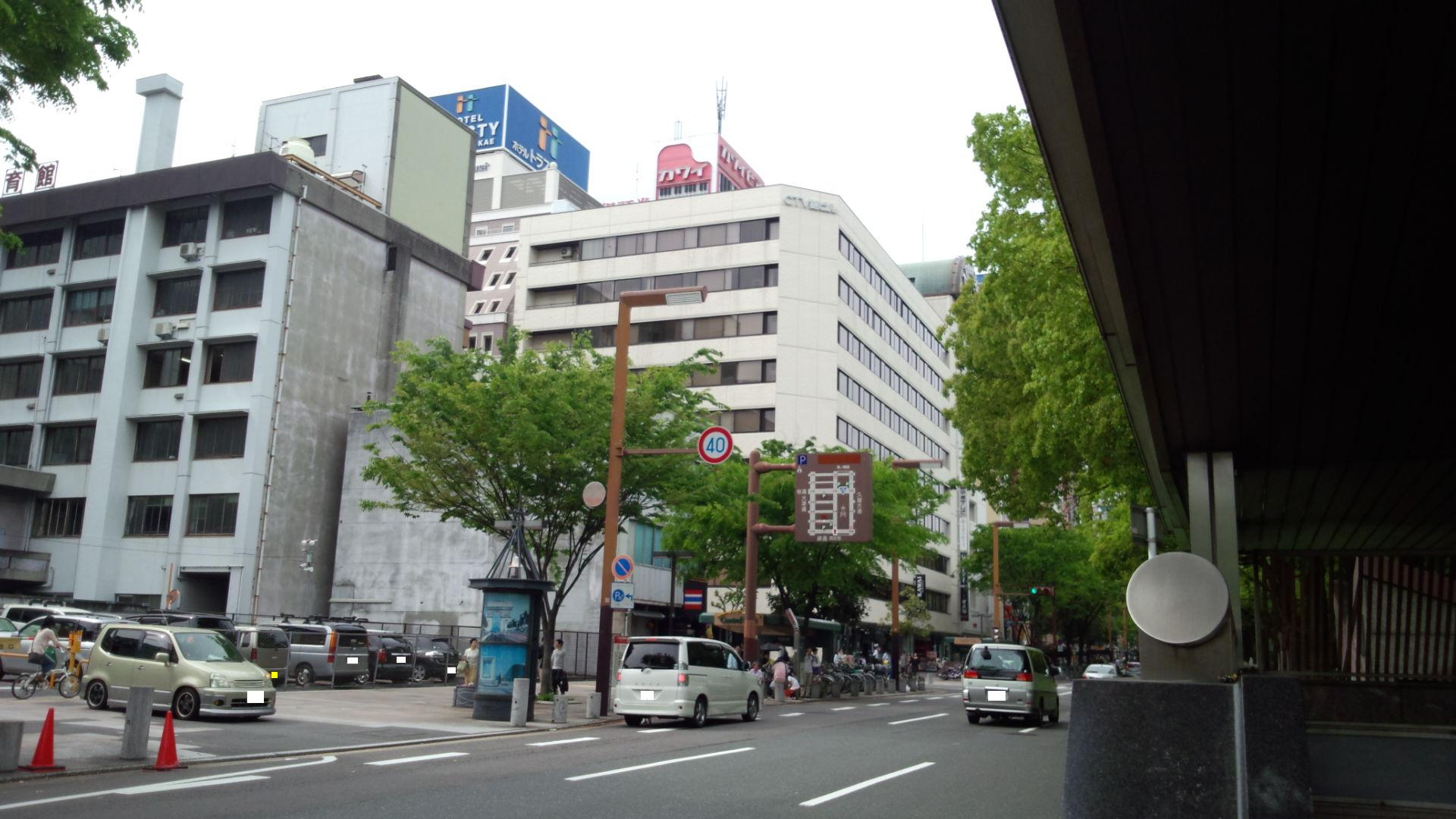 Chukyo TV Broadcasting Sakae headquater.